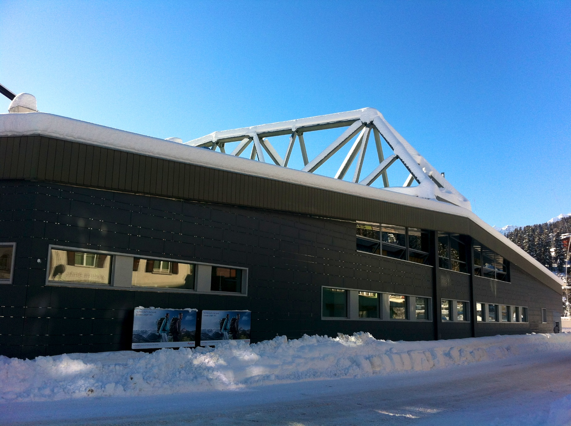 Sports- and convention center Arosa, north face